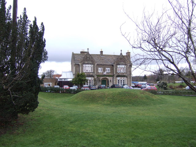 Josca's Preparatory School, Frilford, Oxfordshire. This school was started only in 1956 and now has over 1000 pupils